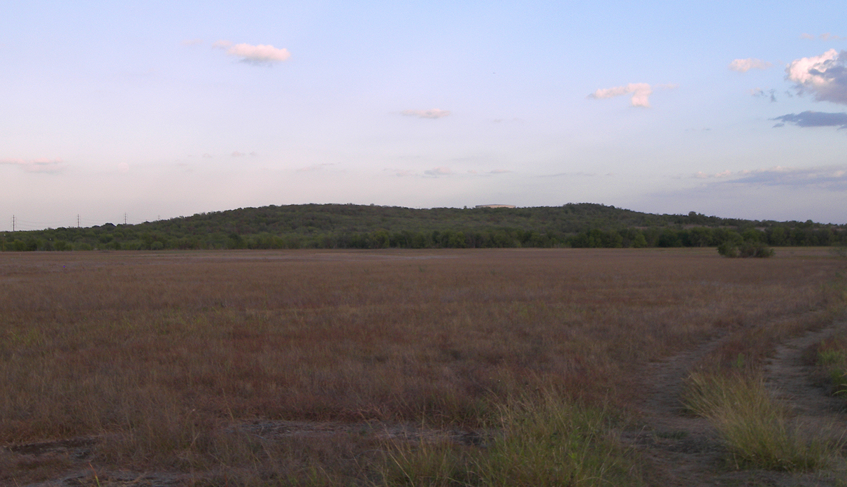 Pilot Knob, the remnant of an extinct volcano, located southeast of Austin, Texas, United States.